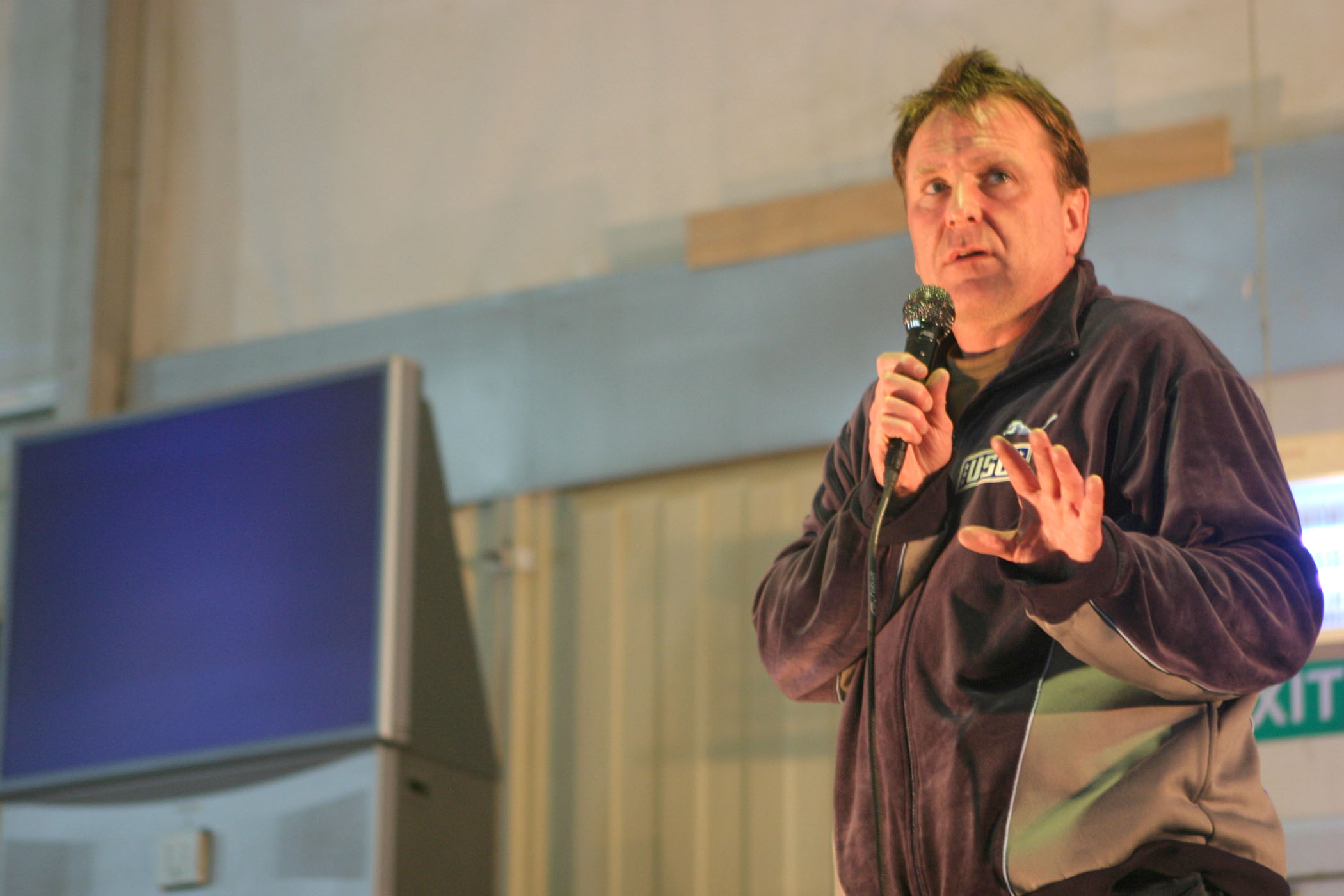 Comedian Colin Quinn performs part of his stand-up comedy routine for service members at Camp Taqaddum, Iraq. "Bringing up the Rear," a comedy tour put together by the United Service Organizations and Armed Forces Entertainment is a ten-day tour.